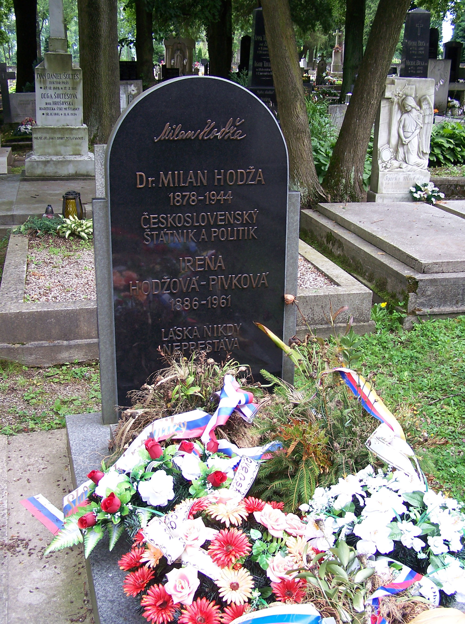 Grave of Milan Hodža at the National Cemetery in Martin, Slovakia